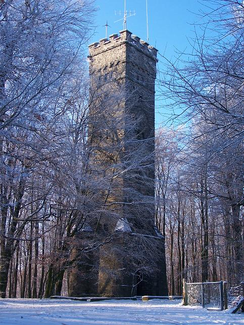 Tower on Felsberg, Germany